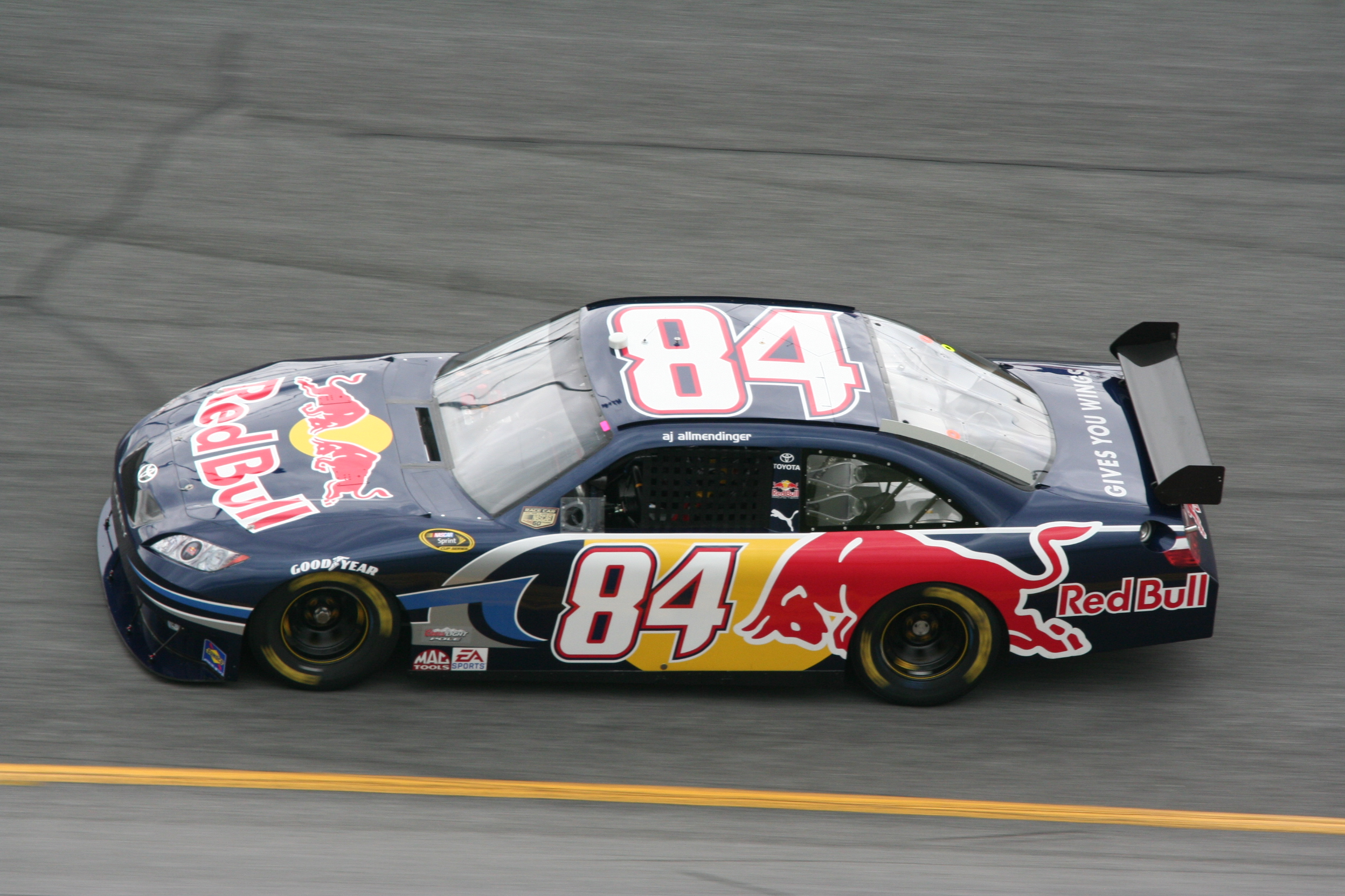 Shot by The Daredevil at Daytona during Speedweeks 2008